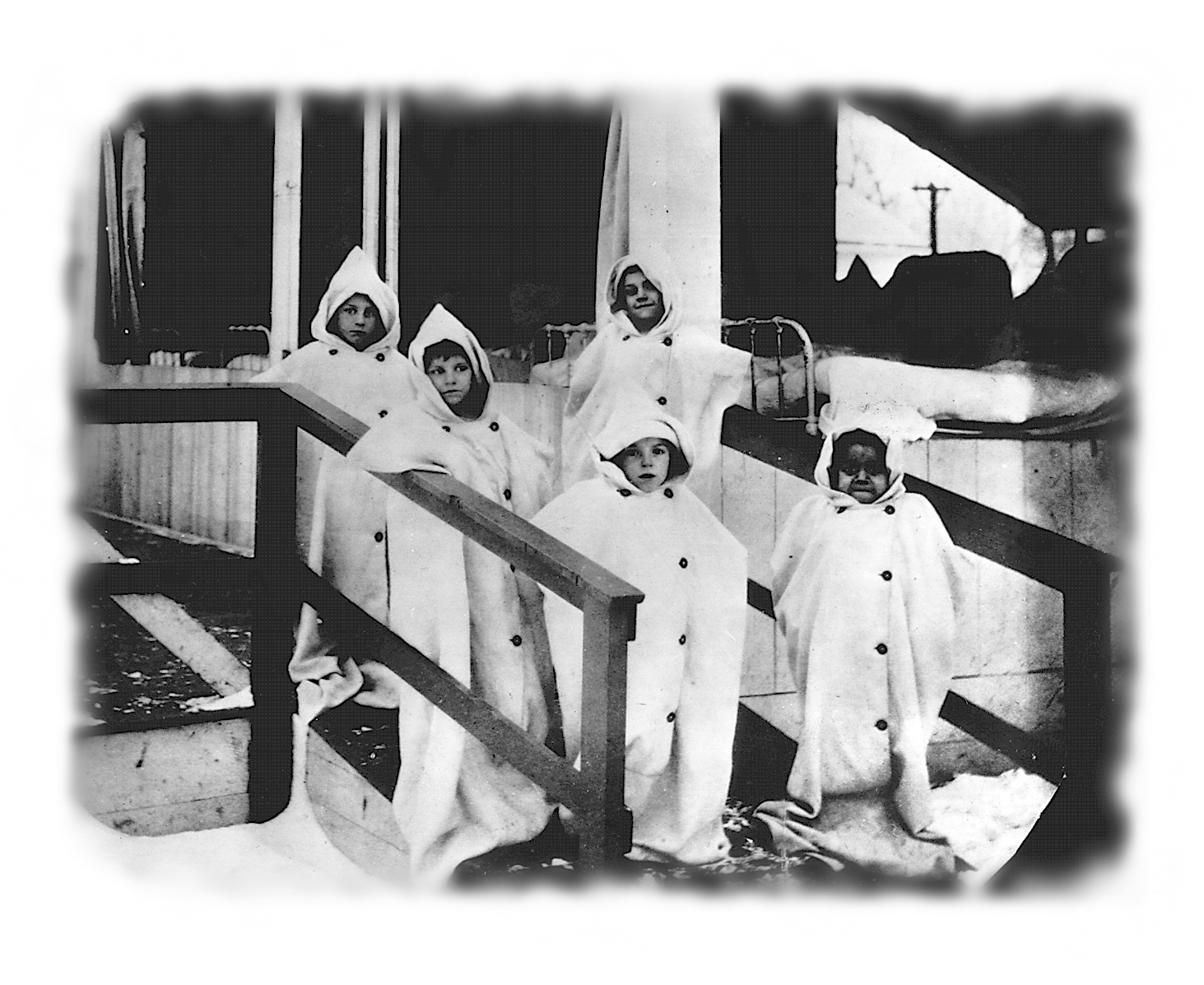 Children being treated for tuberculosis of the bone at Helen Hayes Hospital in West Haverstraw, NY during the 1920.